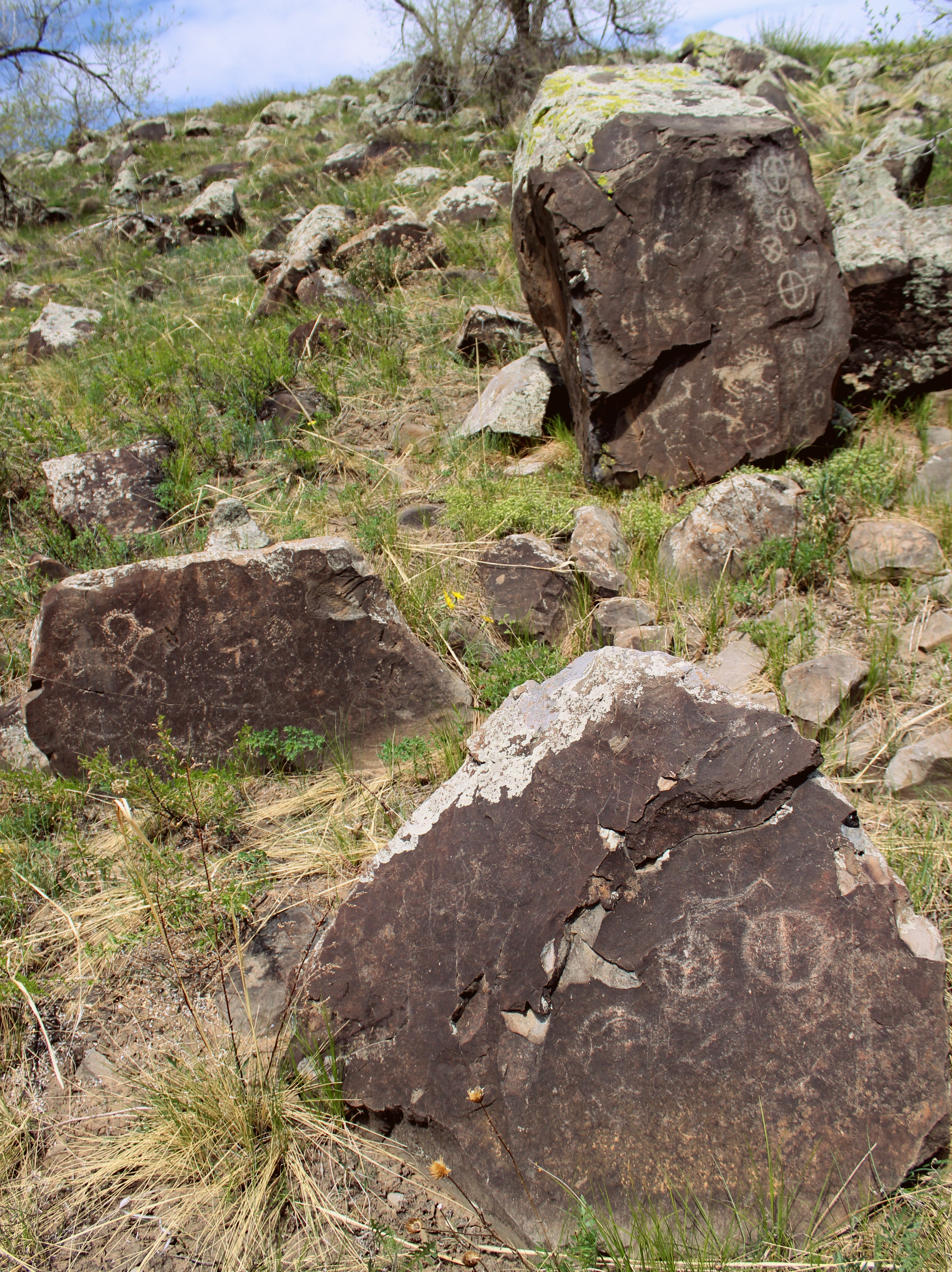 Petroglyphs on Mount Baga-Zarya. Siberia, Buryatia.